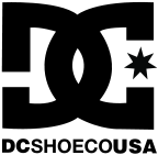 Logo of US company DC Shoes.